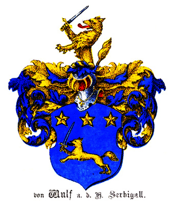 Coat of arms of Wulf family